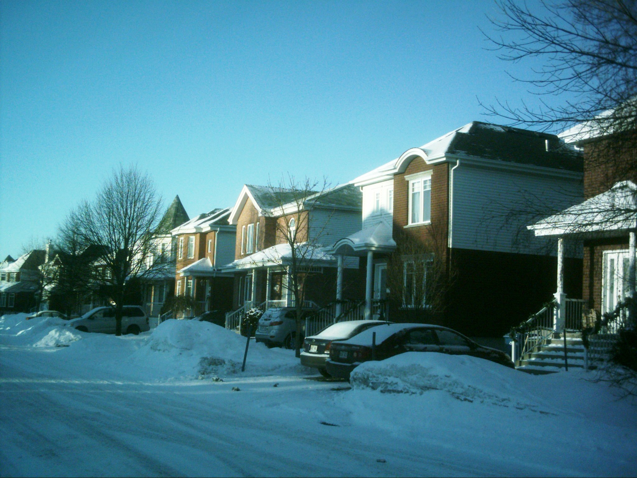 Thierry Street, Brossard, Québec